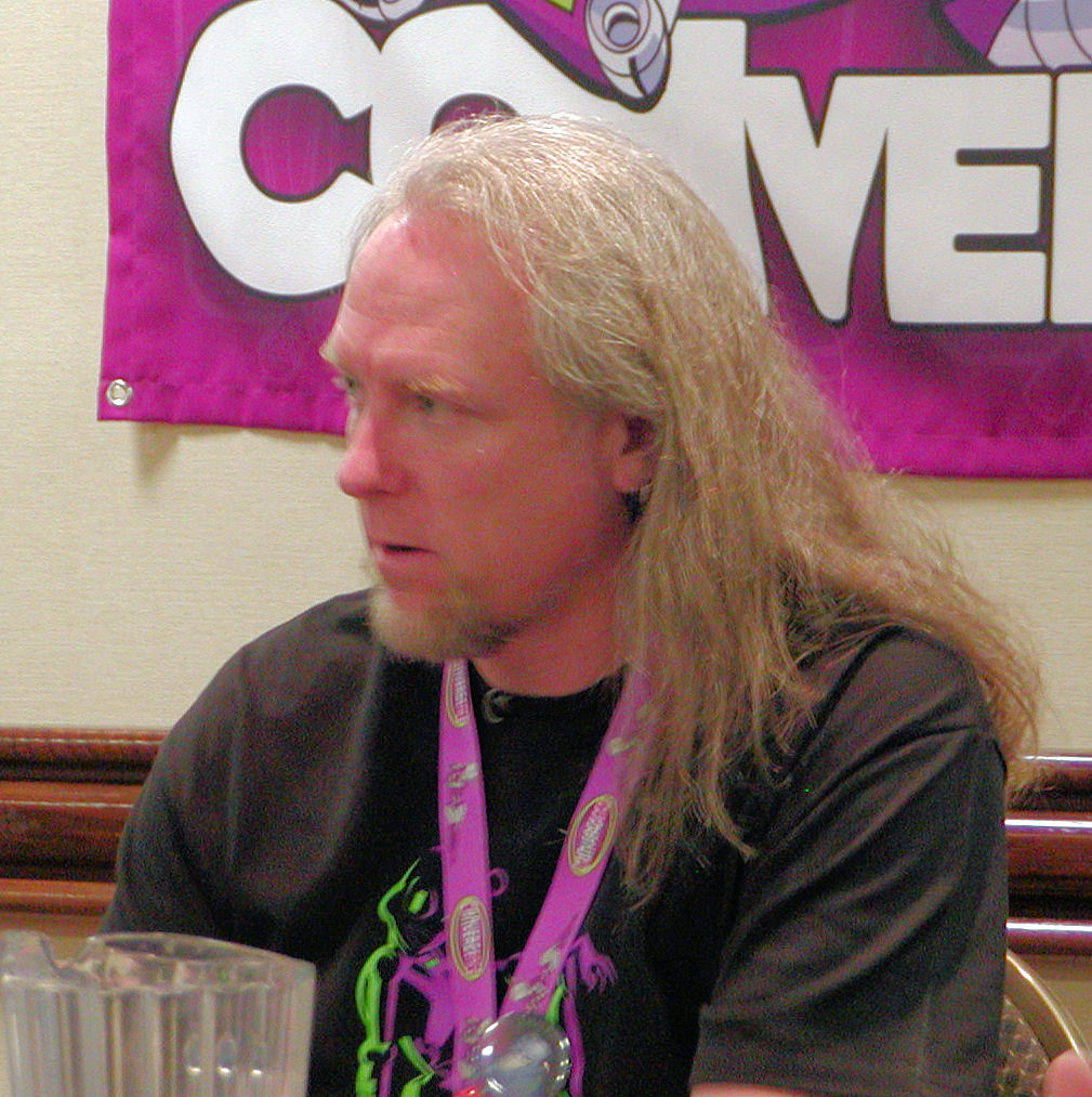 Christian Colquhoun is a prop designer and special effects designer. Credits include Mousehunt, Toy Soldiers, Inspector Gadget, Galaxy Quest, Firefly, Van Helsing, Robocop, Hunt for Red October, Terminator 2, Judgement Day, Hook, etc.